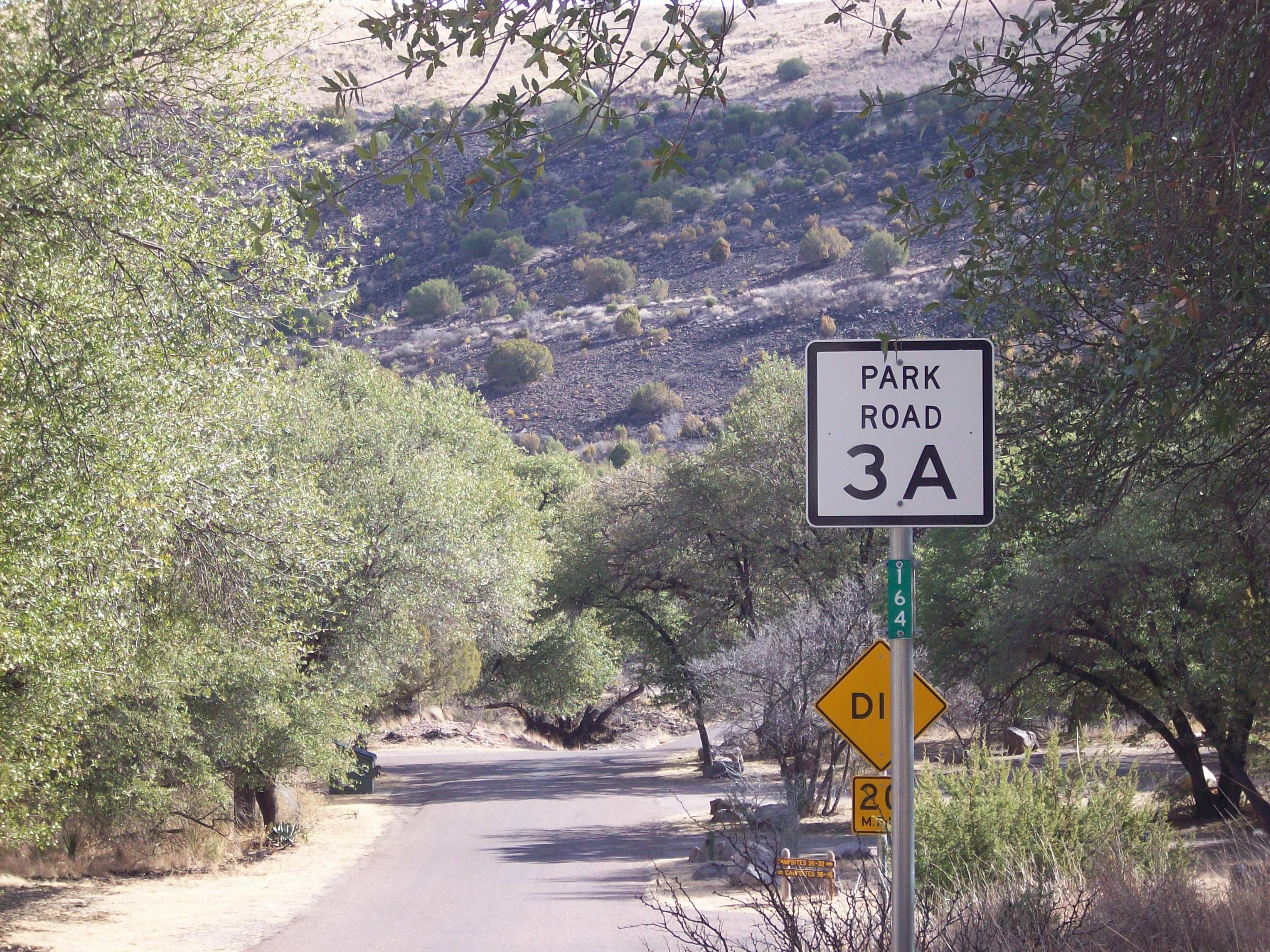 Park Road 3A highway shield in Davis Mountains State Park near Fort Davis, Texas